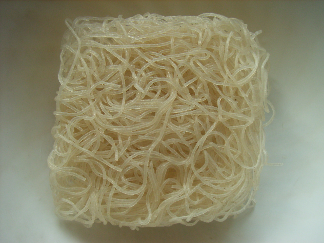 中式zh:米粉